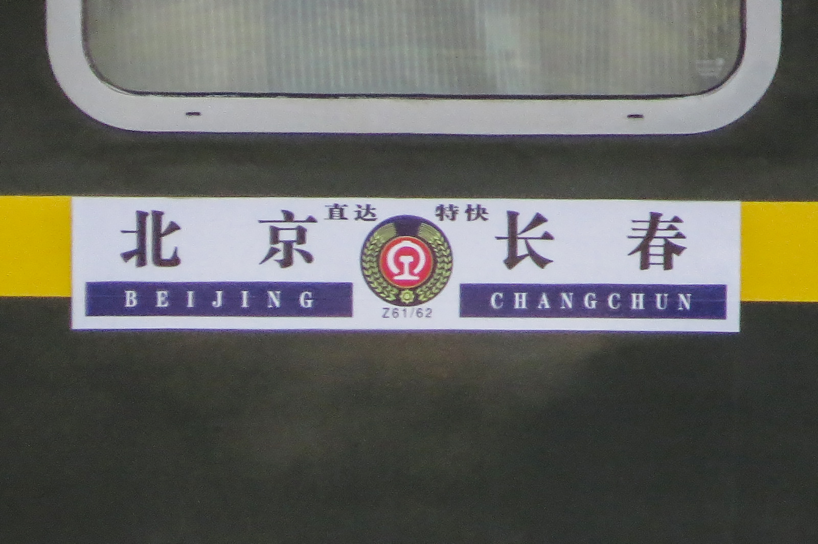 Gaozugreen is an impedance.